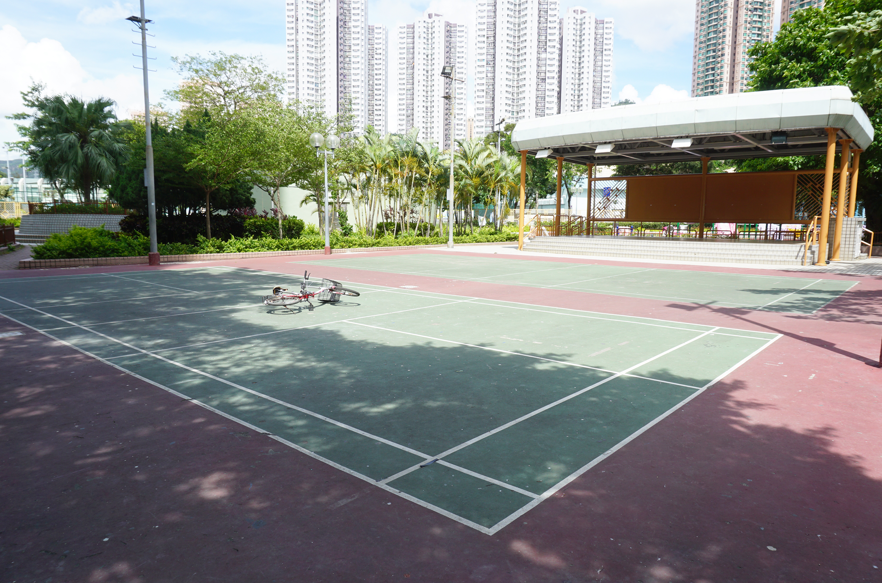 Tai Hing Estate in Tuen Mun, Hong Kong.